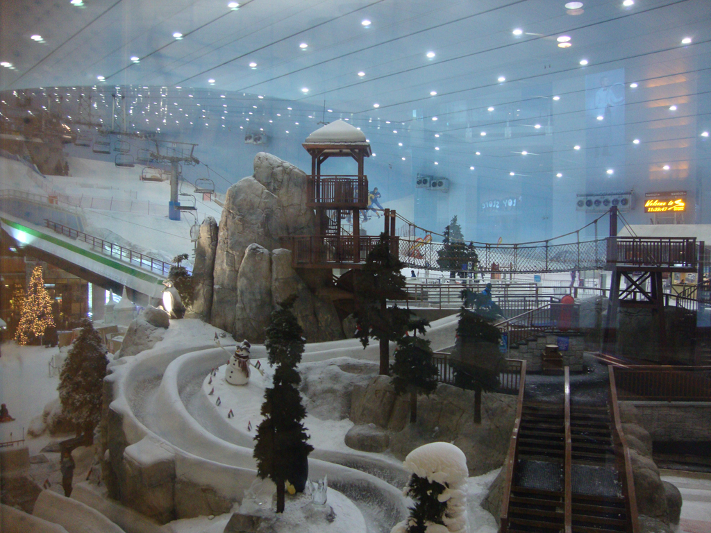 The Mall of The Emirates comes complete with its own ski slope. Skiing in the desert; that just about sums up Dubai for me.